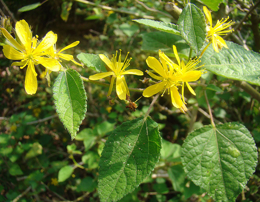 Widespread in the Neotropics under names such as Burbank and Mozote. Photo from San Luis area, Costa Rica. In context at